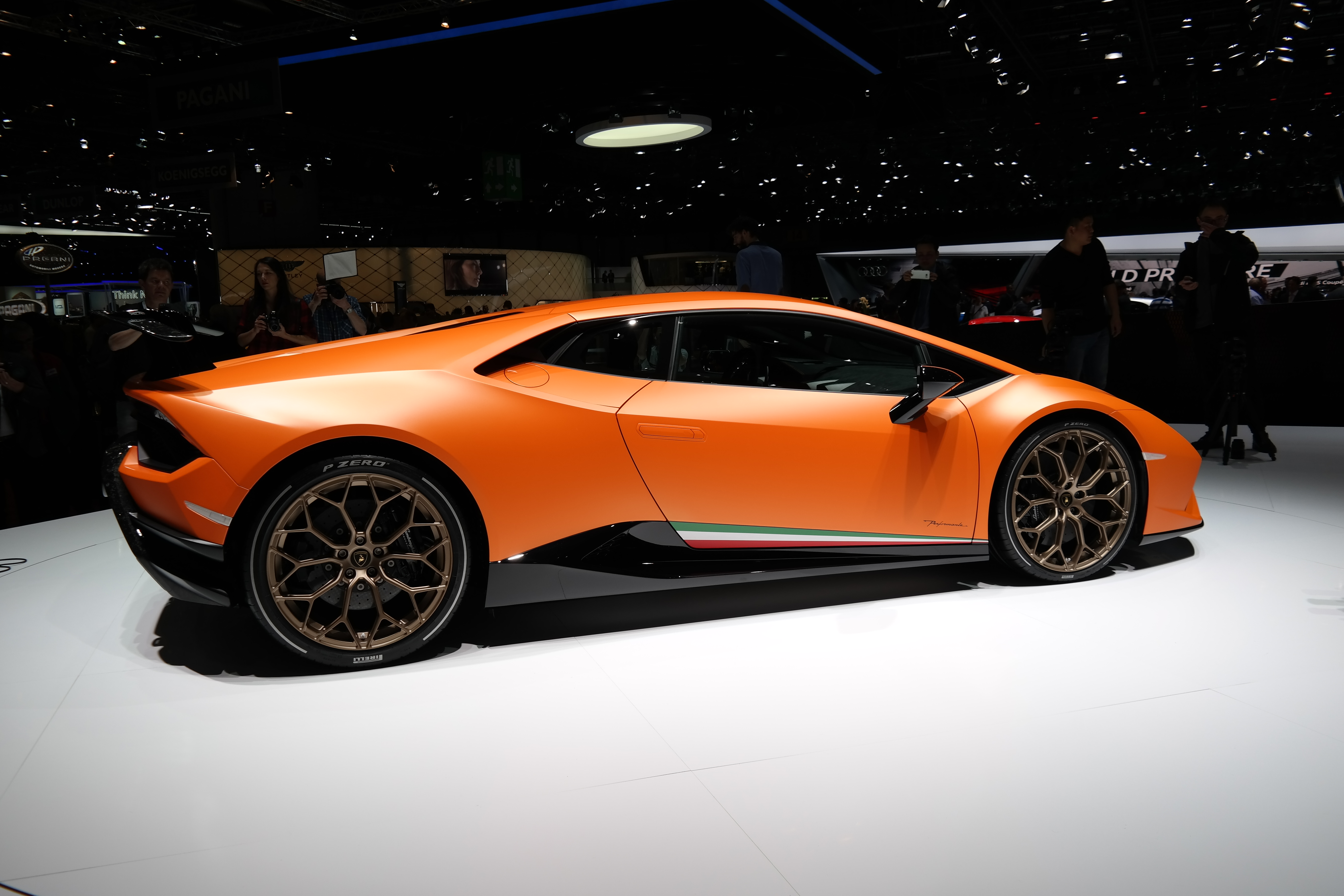 Geneva Motor Show 2017 (photo taken on the first press day)